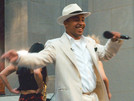 I took this photo on October 8, 1999 at a live taping of the Today Show in NYC NOT